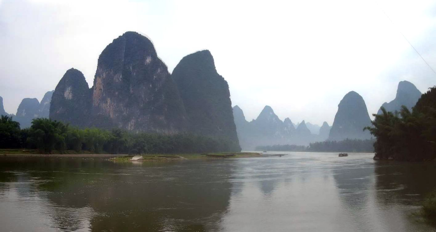 View from Lijiang (Li) River and Karst limestone rock formations — near XingPing Pier, Yanshuo, Guilin. In Guangxi Autonomous Region, of Southeastern China. Back scene of 20 yuan RMB.